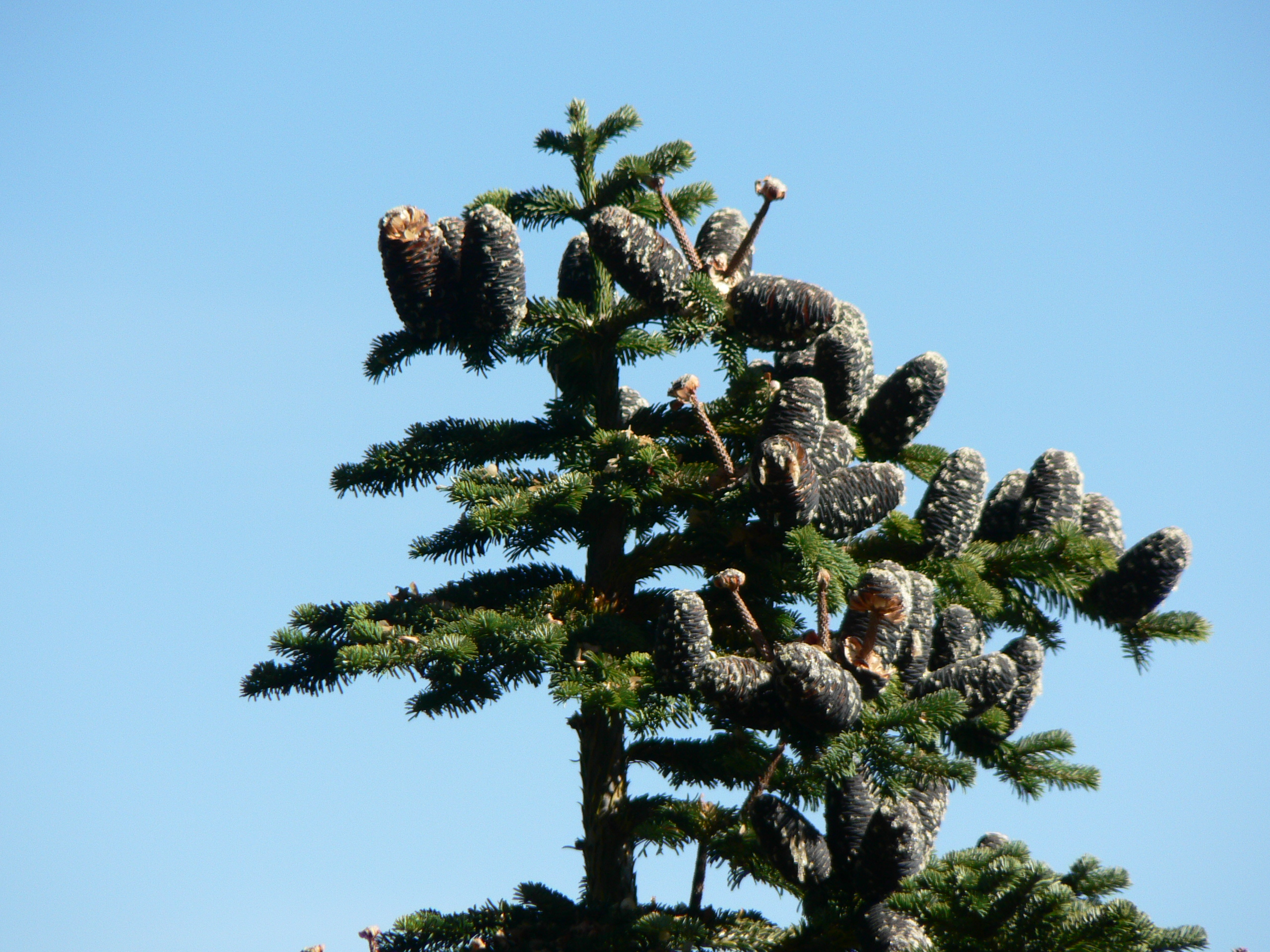 Pacific Silver Fir